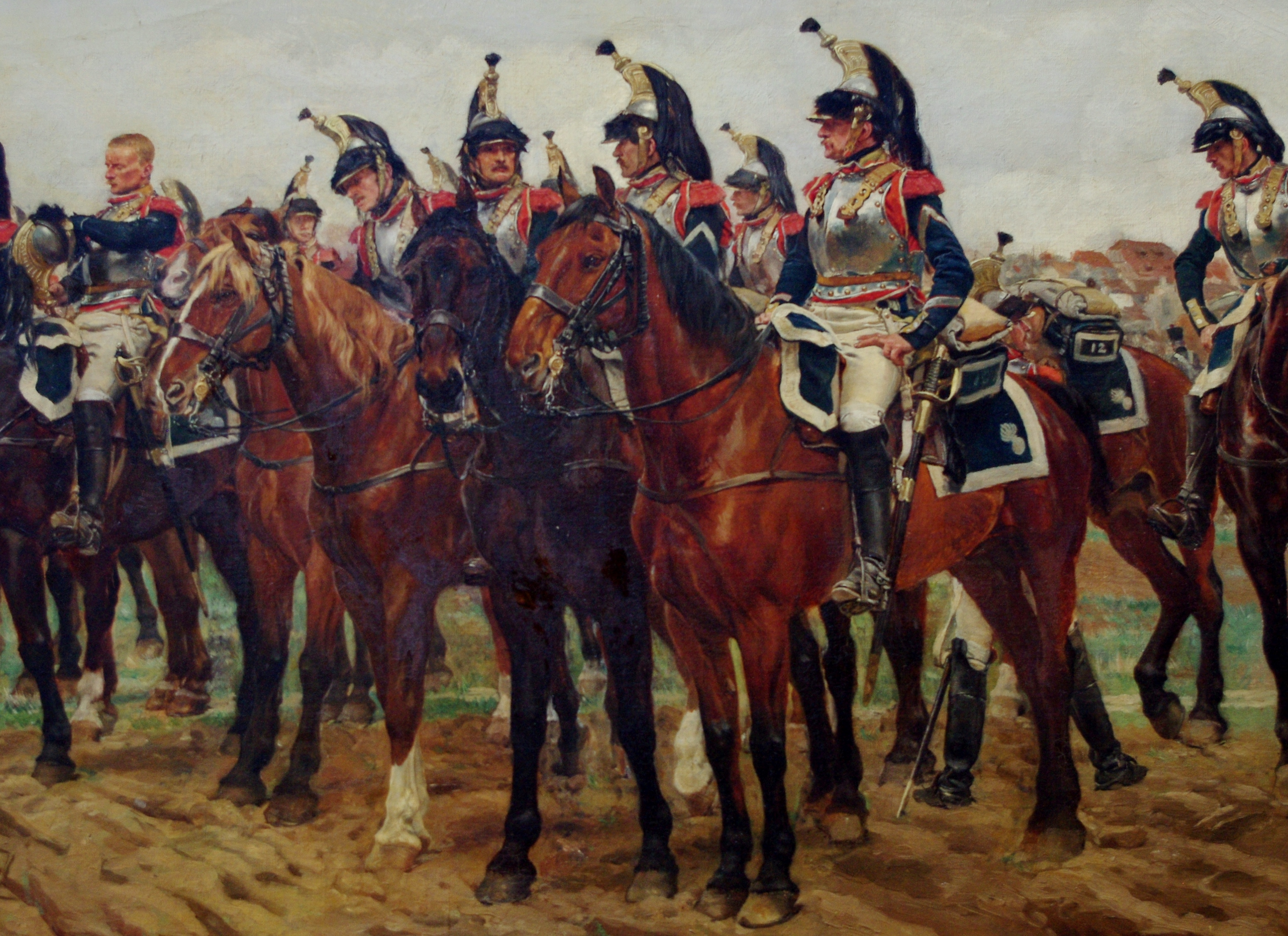 Mesonnier was known for his meticulous research and detail, often painting dozens or even more recognizable figures into what other artists would have considered background. This small fragment from the Cuirassiers shows how much effort he put into each tiny horse and cavalry officer in the picture.